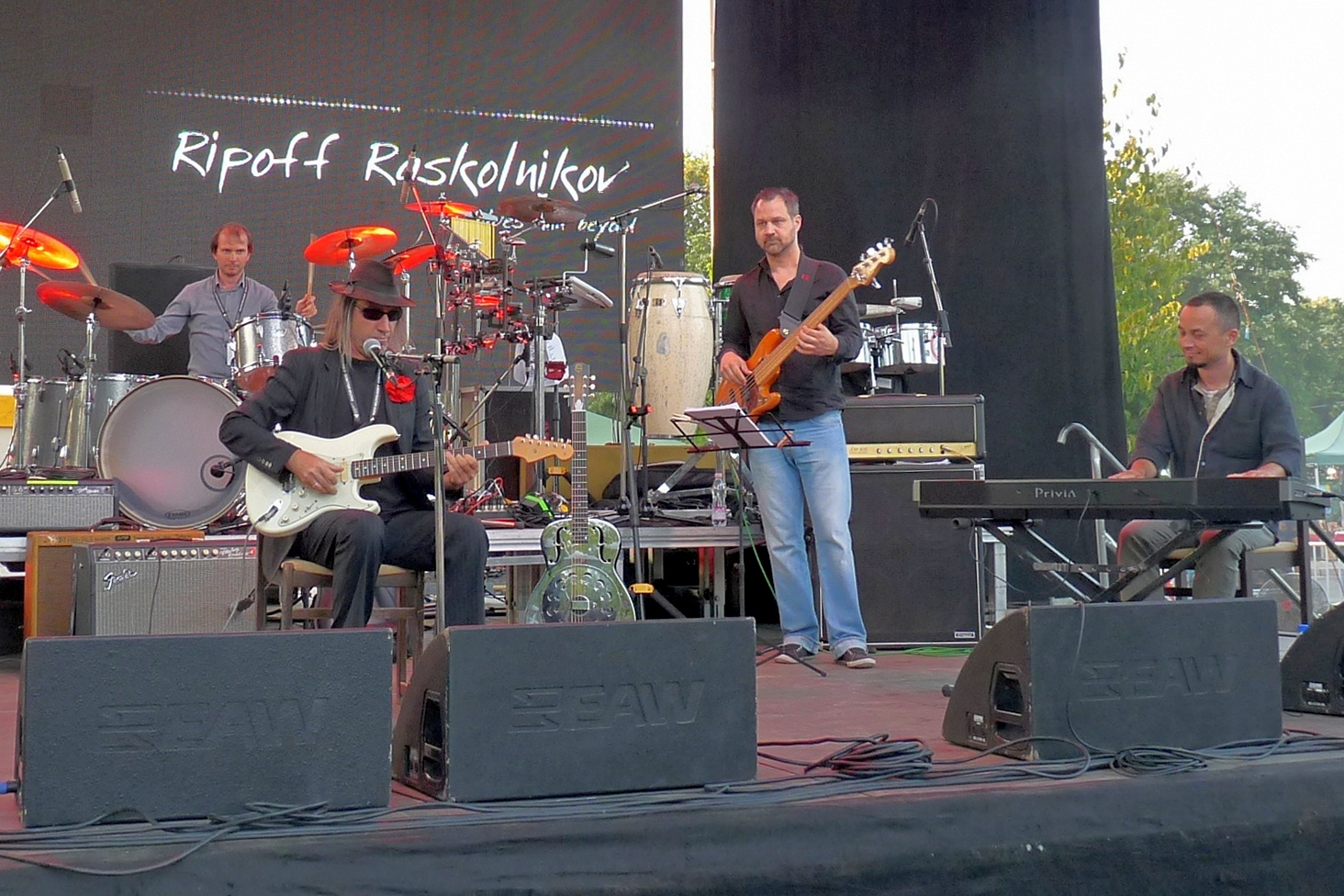 Ripoff Raskolnikov Band (Ripoff Raskolnikov: vocals, guitars, mandolin, piano; Szabolcs Nagy: piano, Laca Varga: bass guitar and Lajos Gyenge: drums) on concert in Bükfürdő (Hungary) July 26, 2015.